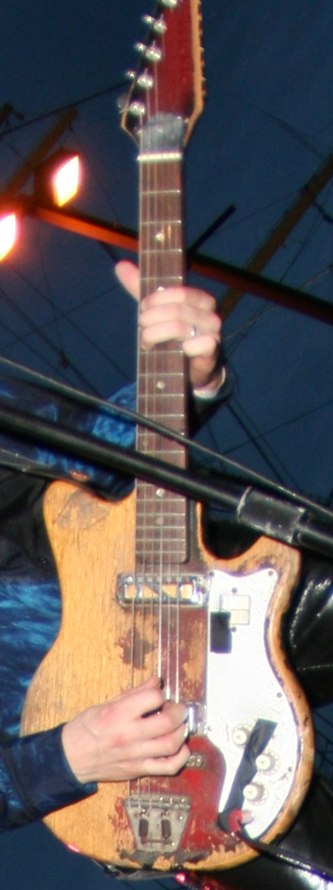 Zim-Gar EJ-2-T (1960s) played by Jon Spencer, 2009 clipped from The Jon Spencer Blues Explosion, at Bikes Rock, Bicycle Film Festival 2009 References 1960's Zim-Gar Guitar Catalogs. . Tessa Jeffers. "Interview: Jon Spencer Blues Explosion". Premier Guitar (October 2012). "Jon Spencer plays his legendary Zimgar guitar (bought from a pawnshop by his wife) in dropped-D tuning."